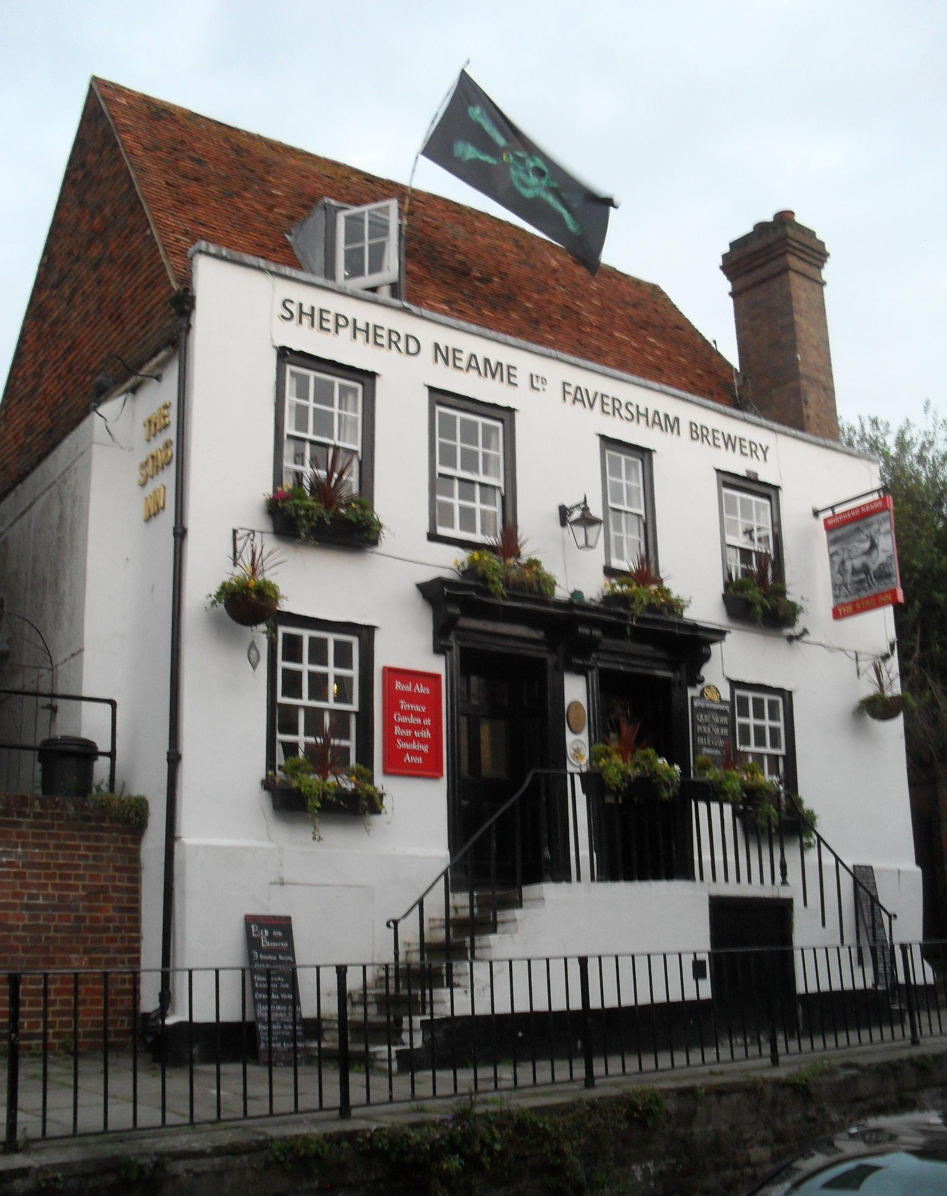 The Stag Inn, 14 All Saints Street, Old Town, Hastings, East Sussex, England. A 16th-century inn refronted in the 18th century. Listed at Grade II by English Heritage (NHLE Code 1043626)